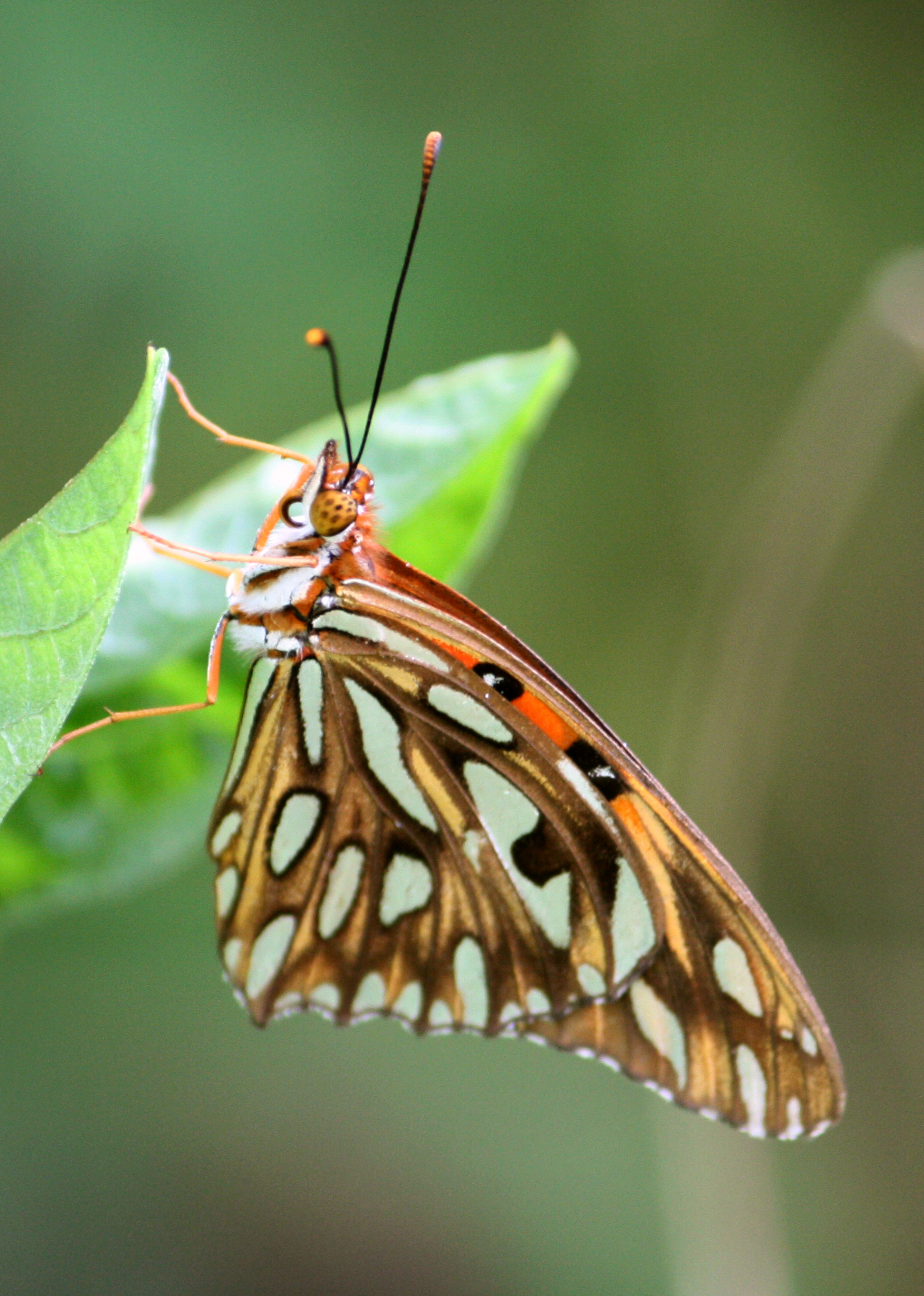 Gulf Fritillary butterfly (Agraulis vanillae) perched on a leaf; profile view with underwing visible. Cabrits National Park, Dominica.